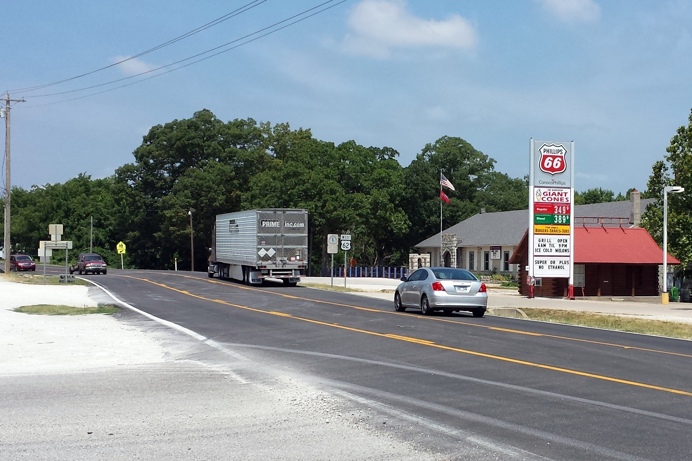 US 62 runs west in Garfield, AR